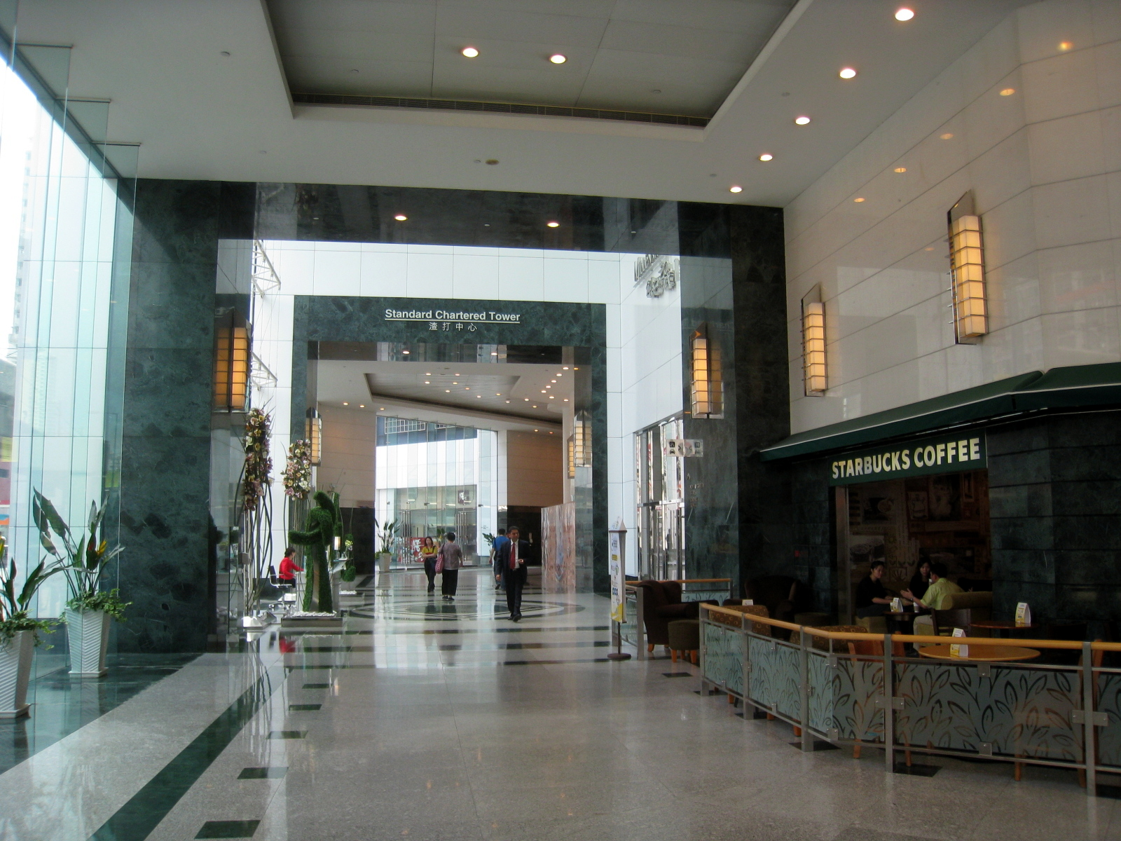 Millennium City Phase 1 Lobby